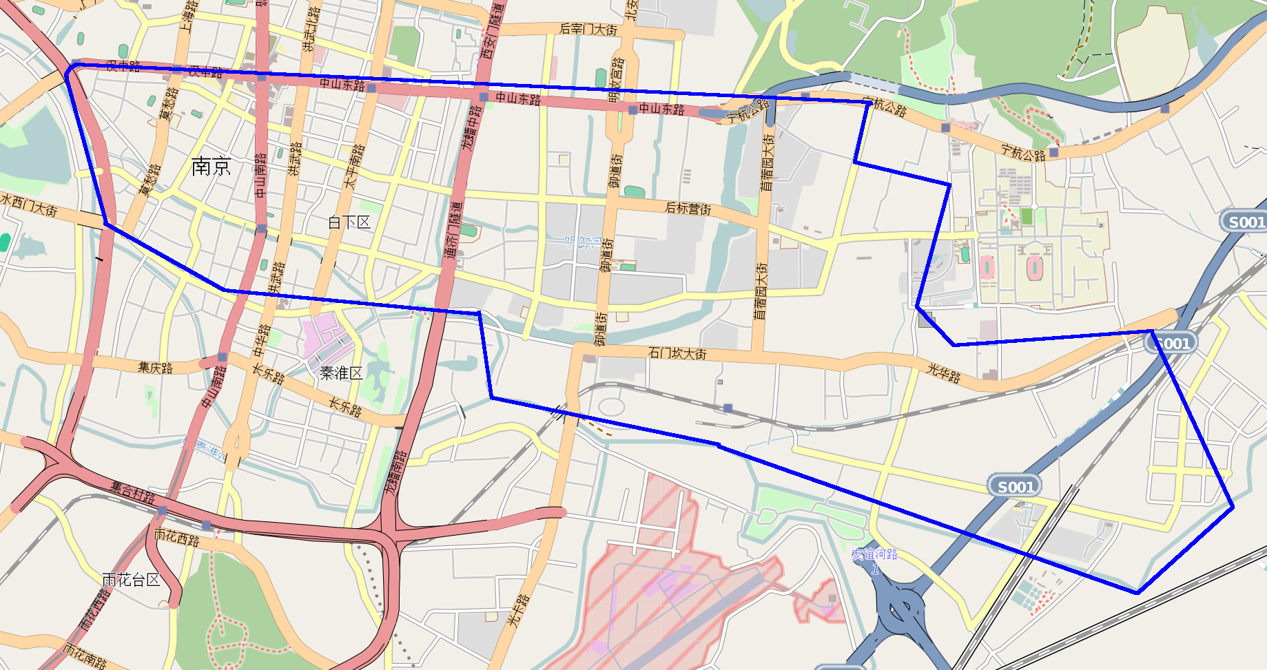 Range of Baixia District, Nanjing